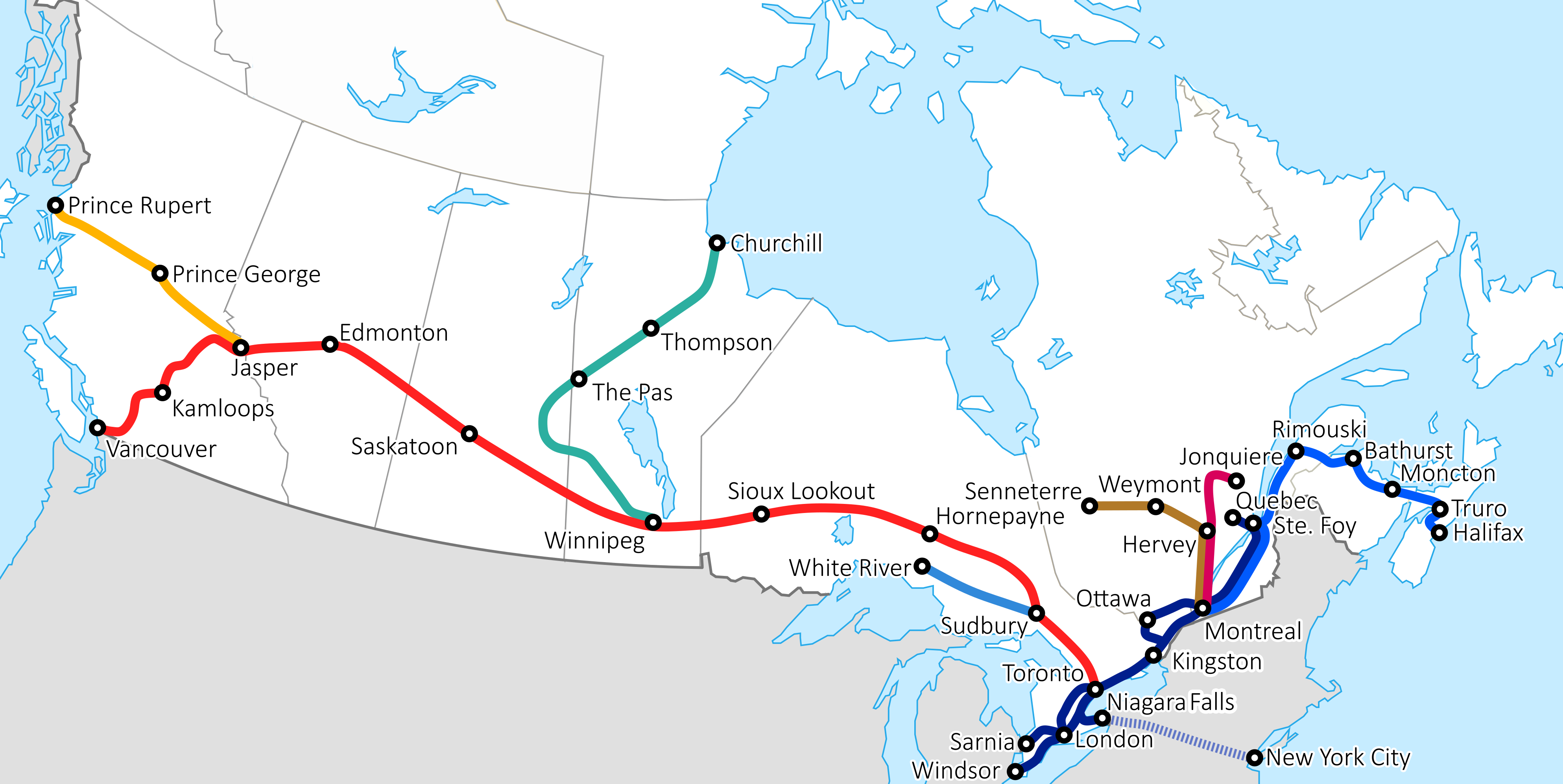 Geography accuracy is not absolute. Line colouration is to match the colours used in the VIA Rail Timetable (February 2019). This map was remade to replace the previously included map on the VIA Rail Canada page which still showed the Victoria-Courtenay train in British Columbia and the Gaspe train in Quebec, which have not operated for over five years at this time. Dotted lines mark VIA Rail Canada routes operated in partnership with Amtrak.